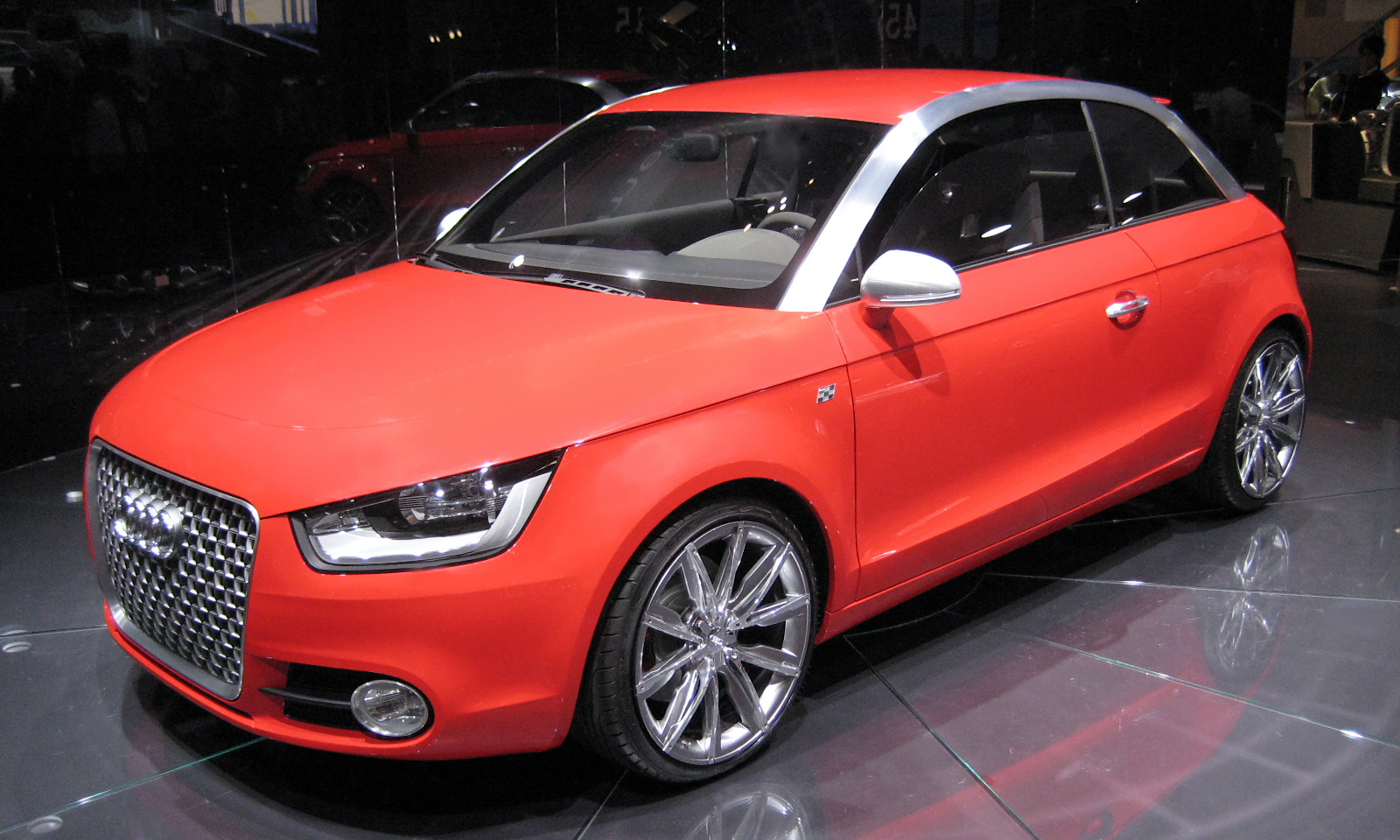 Audi Metroproject Quattro Concept photographed in Tokyo Motor Show 2007 (World Premiere)